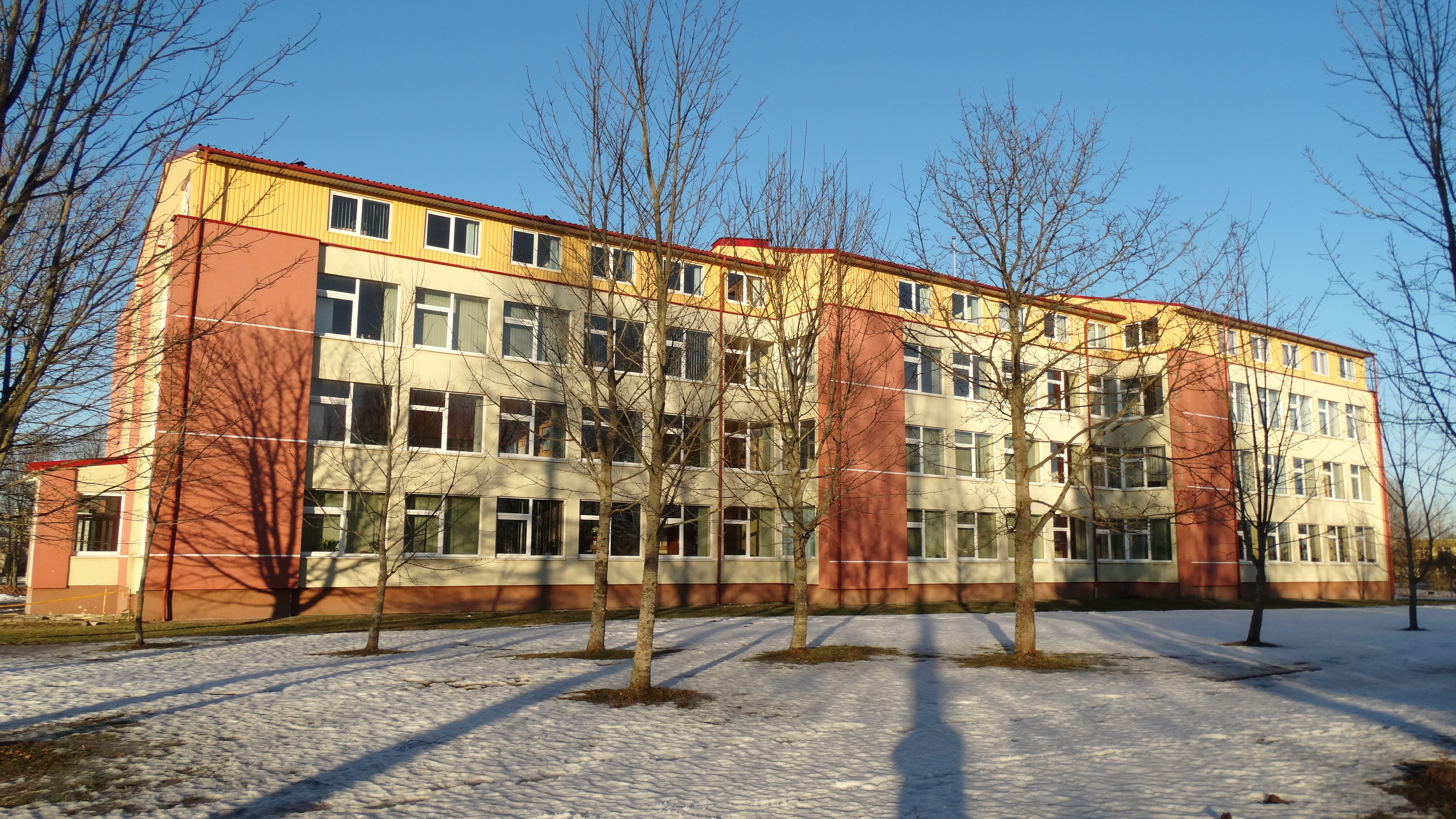 School named after Dariaus ir Girėno, Šilalė, Lithuania